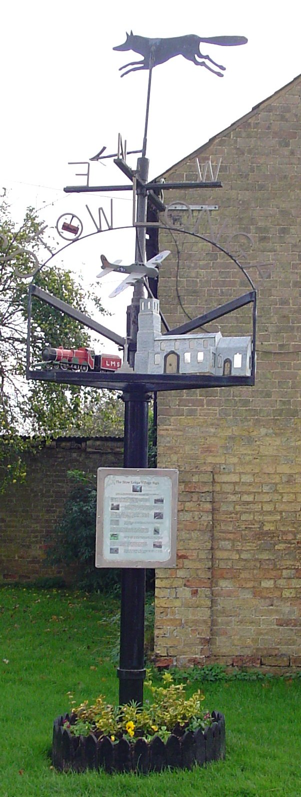 Signpost in Stow Longa